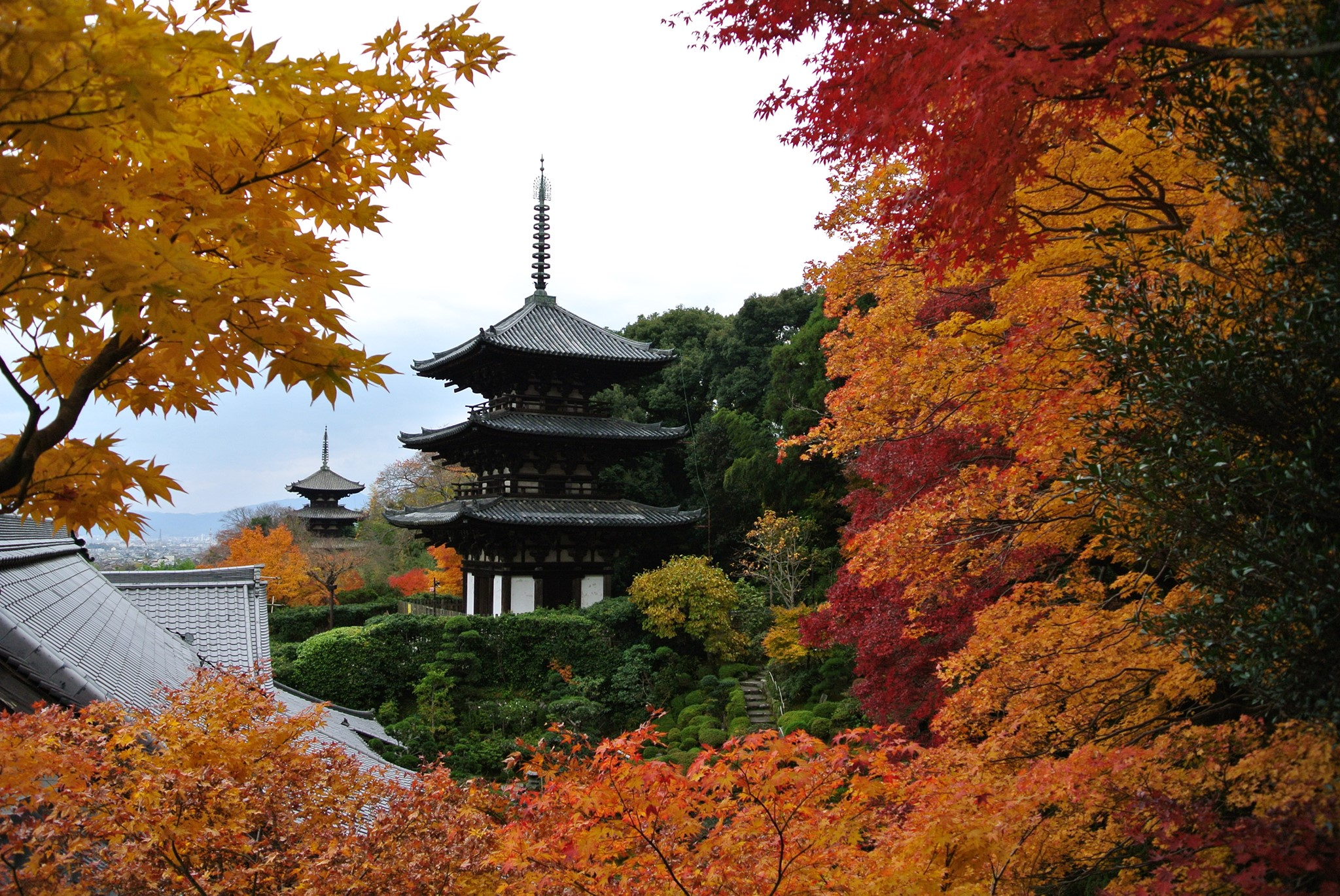 Taimadera pagoda